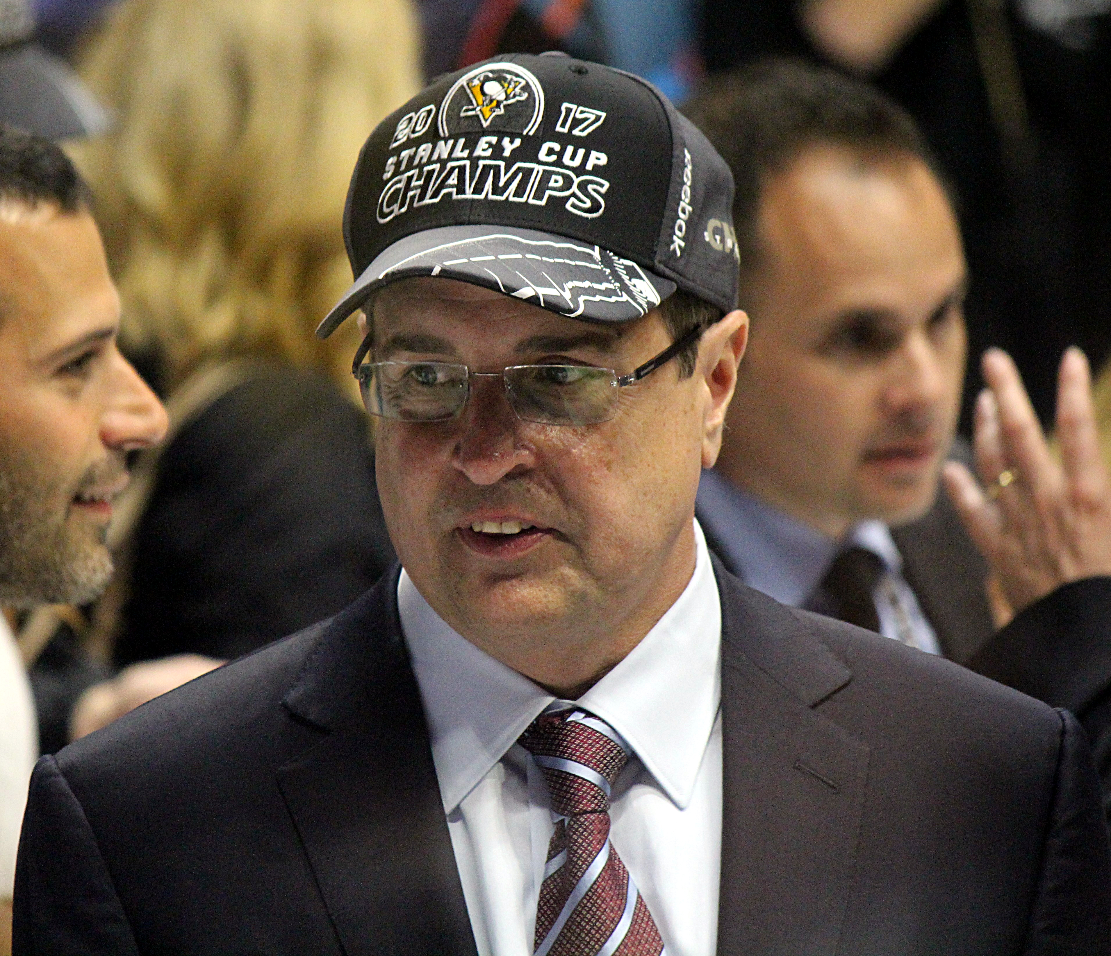 Pittsburgh Penguins CEO David Morehouse celebrating the team's fifth Stanley Cup win, June 11, 2017, at Bridgestone Arena in Nashville, TN.